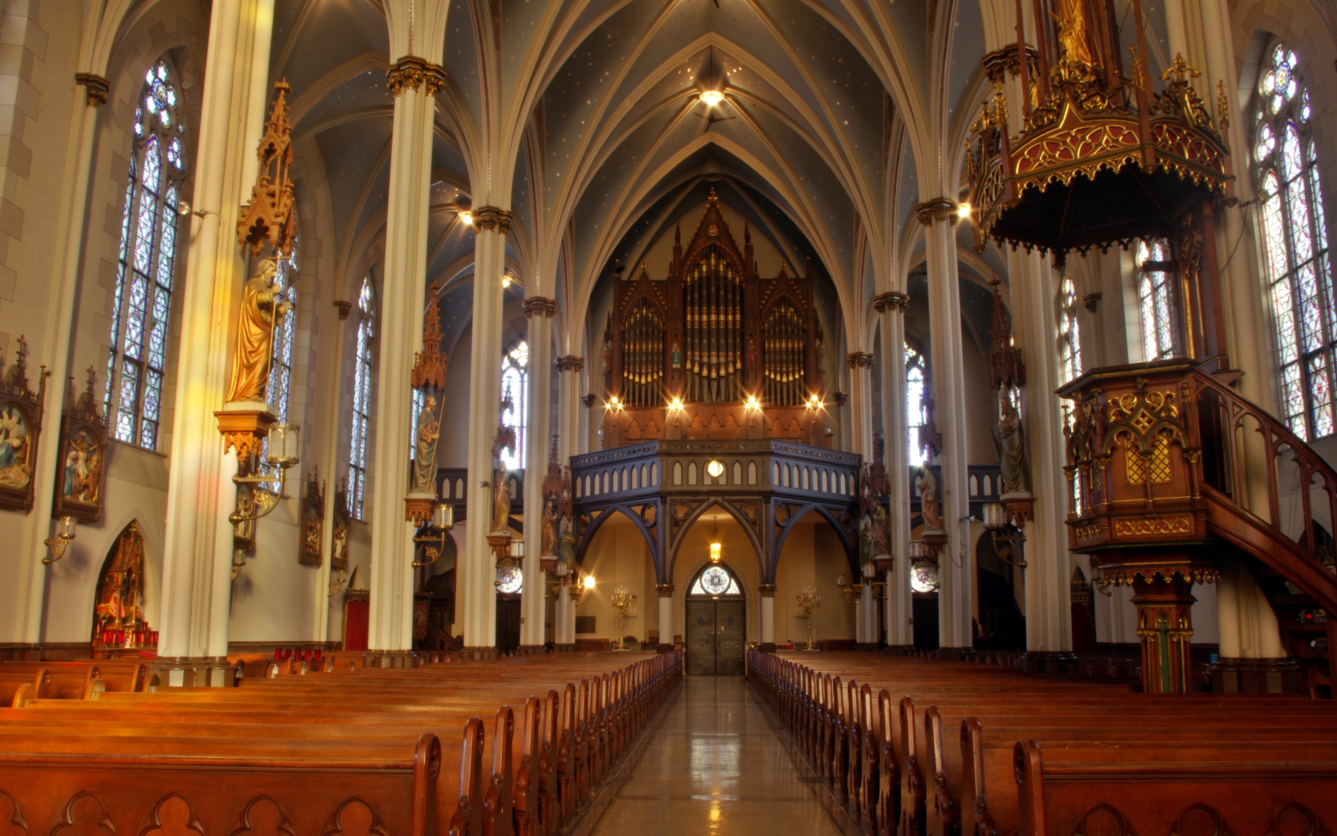 Saint Joseph Catholic Church (Detroit, MI) - nave, rear